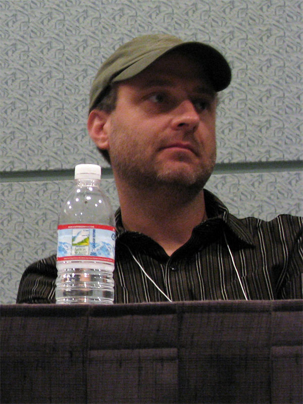 Star Wars: The Clone Wars staff writer Henry Gilroy He sat next to his co-worker Steven A. Melching